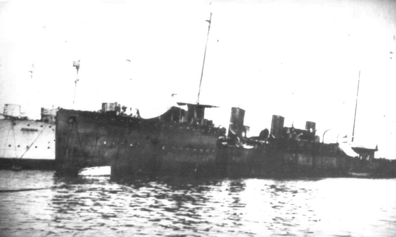 The Russian unfinished squadron torpedo boat (destroyer) Tserigo in Bizerte.